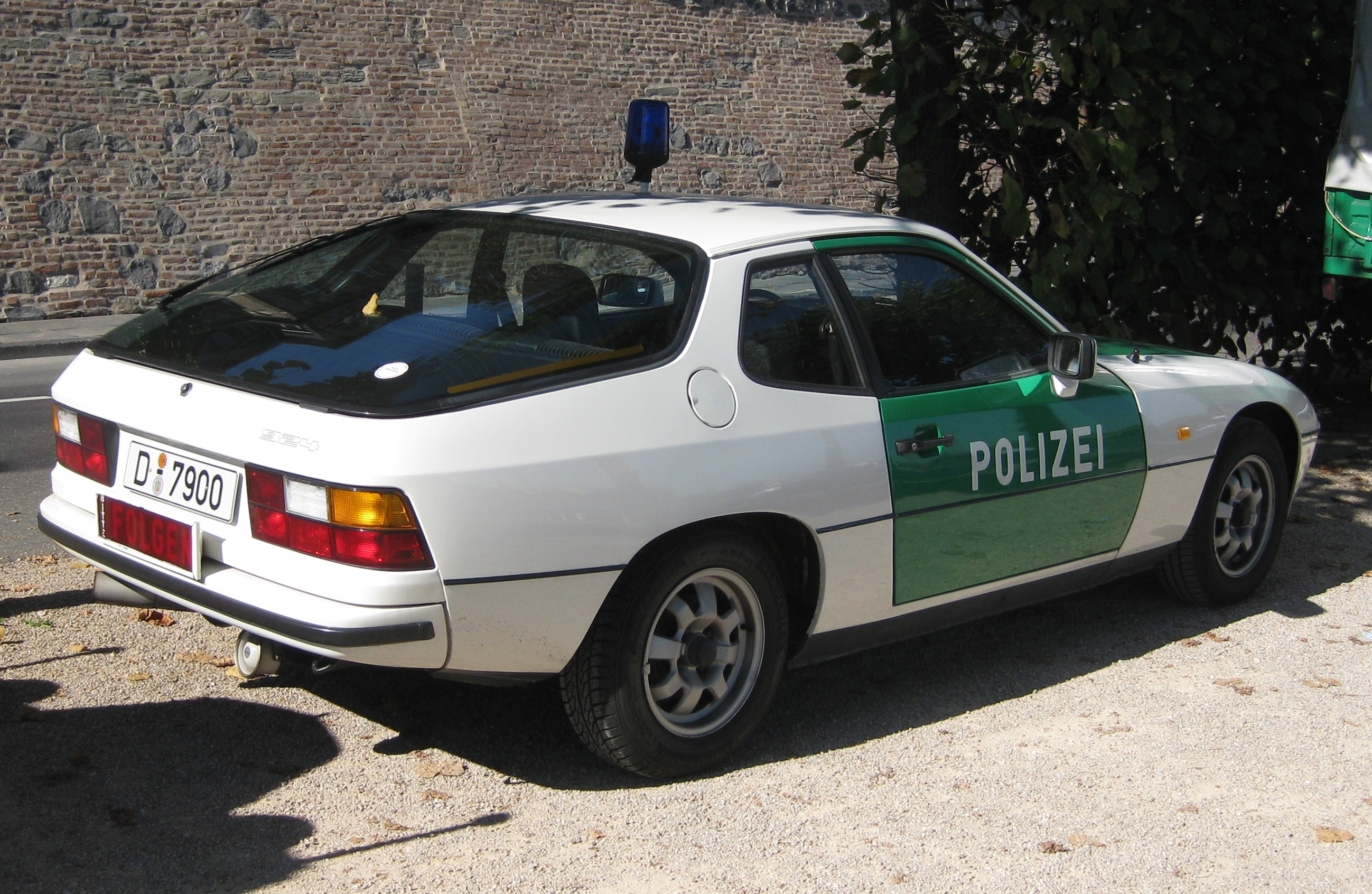 Old cars of the North Rhine-Westphalian Police -decommissioned from service- photographed on the eve of a car show on the occasion of Deutschlandtag ("Germany Day") 2011 in Bonn, Germany.